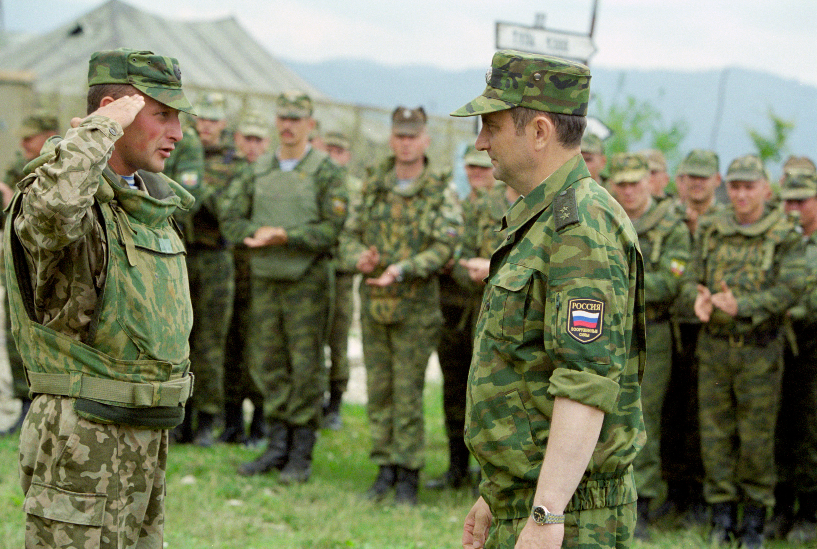 Russian Airborne Troops Commander-in-Chief, Lt. Gen. Alexander Kolmakov (right) receiving a report for duty, July 27, 2004.